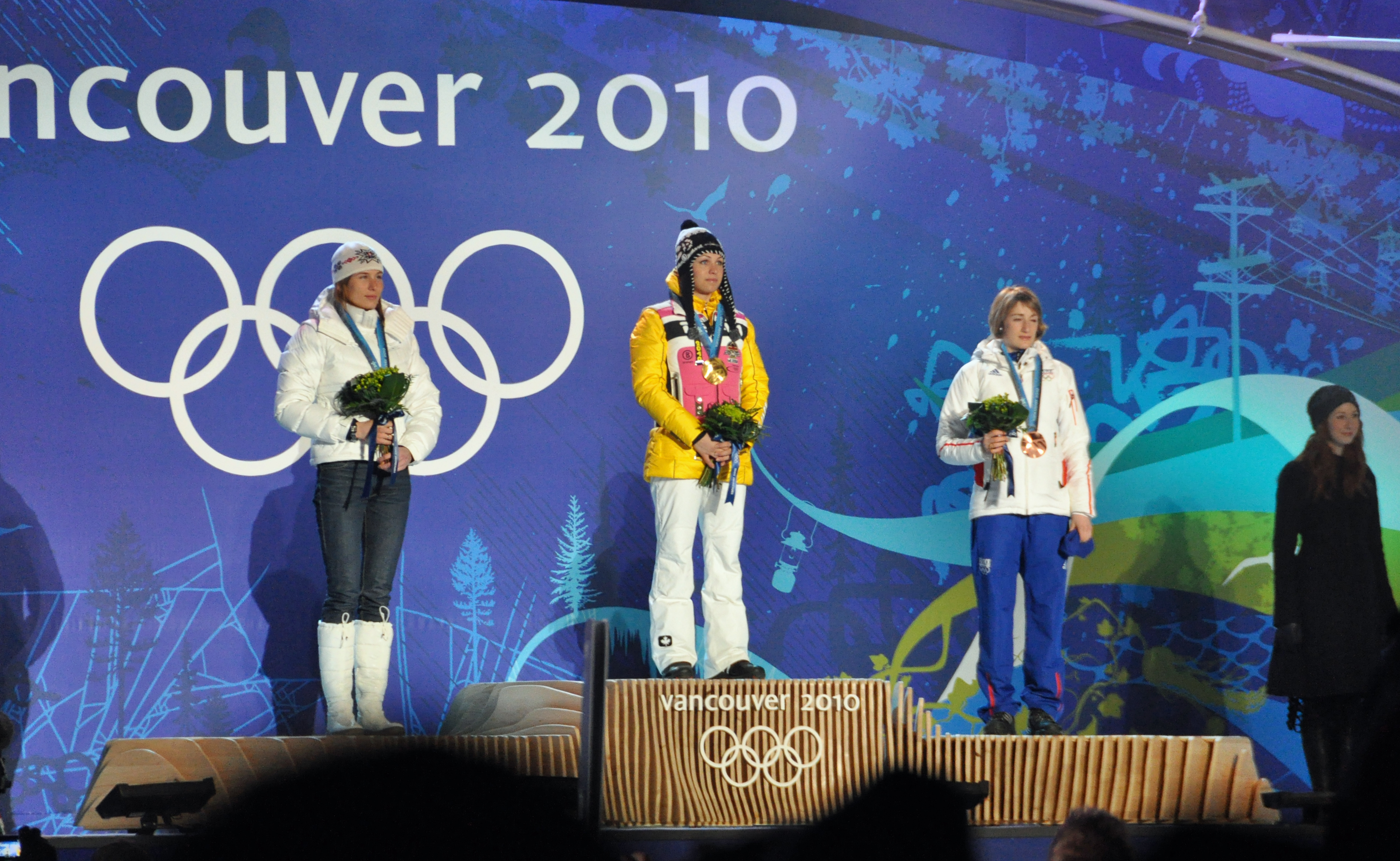 Magdalena Neuner accepting her gold medal for winning in the women's 10km pursuit biathlon event. Vancouver 2010 Winter Olympics